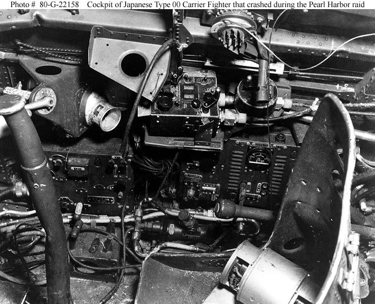 Interior of the cockpit of a A6M2b(Zero fighter Model 21).